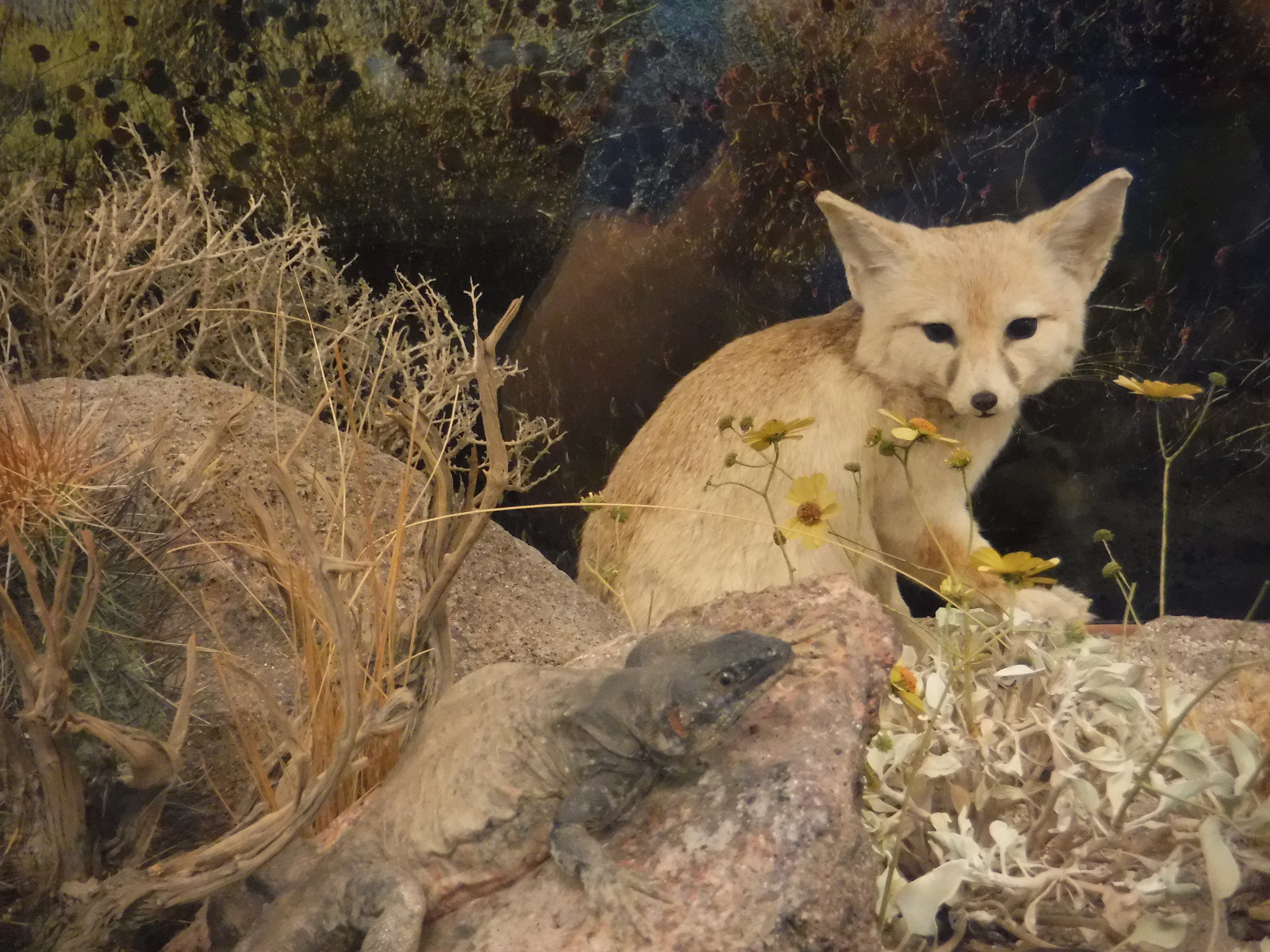 Vulpes macrotis (Kit fox) in naturalistic taxidermy display, San Diego Natural History Museum